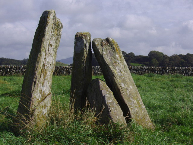 Neolithic Standing Stones at Newton Farm